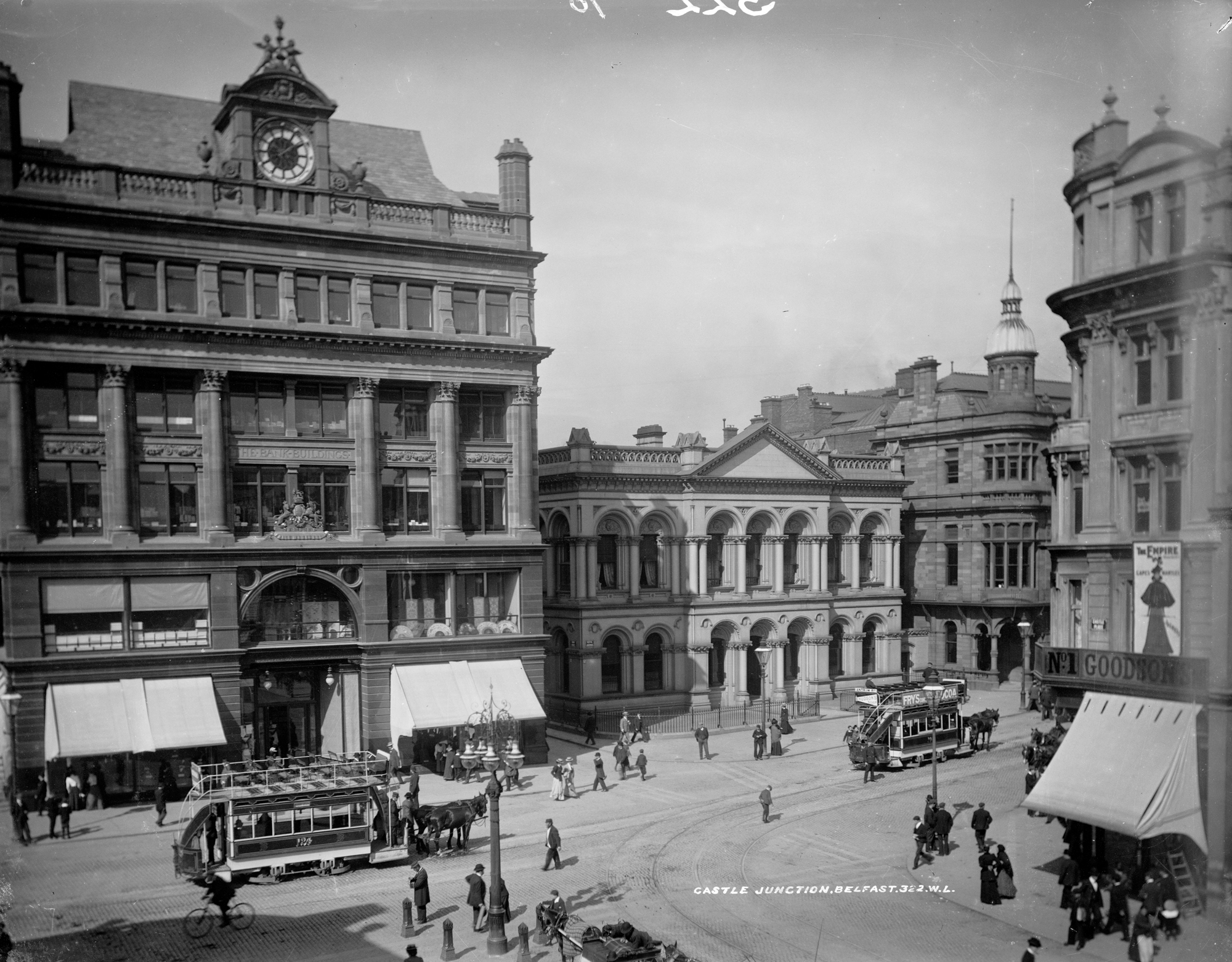 Moving from downtown Nobber to a more sophisticated and meropolitan Belfast to Castle junction with department stores and fine buildings on display! Collection: The Lawrence Photograph Collection Photographer: Robert French Date: between 1880-1900 NLI Ref: L_ROY_00322 You can also view this image, and many thousands of others, on the NLI’s catalogue at